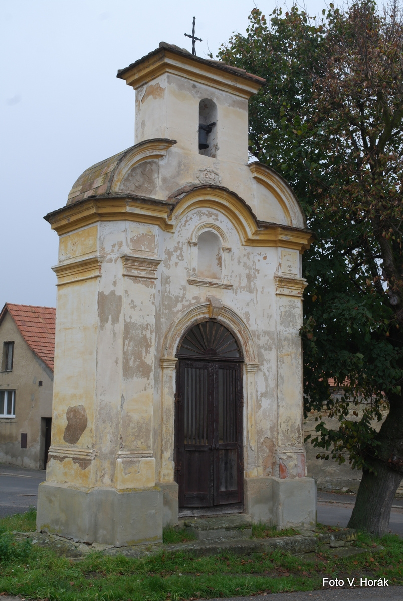 Late Baroque chapel from the late 18th century, modified in 1908. Martiněves.